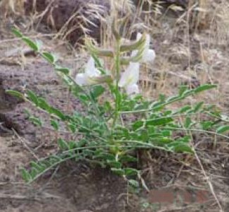 Peteria thompsoniae. BLM photo, no copyright.